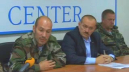 Maj. Dmitry Khabarov (left) at the press-conference, entitled "One, who once protected Russia, now himself needs protection," held in Moscow, on September 21, 2011.